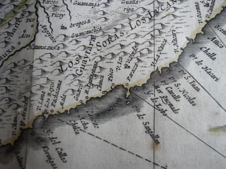 Part of a map of Peru.